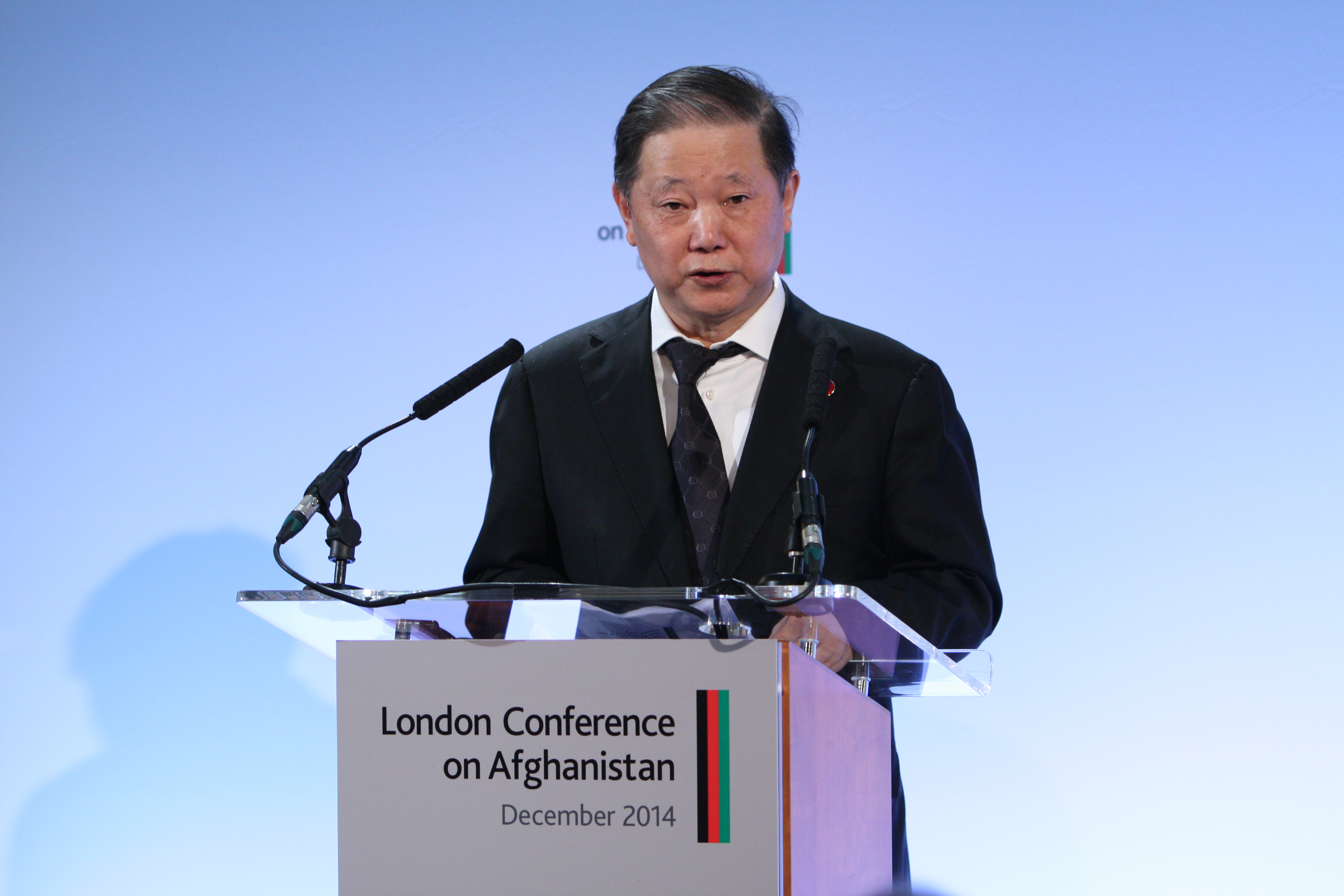 The London Conference on Afghanistan takes place on 4 December 2014, co-hosted by the governments of the UK and Afghanistan. The Conference brings together the Afghan government and international community in support of a secure and peaceful future for Afghanistan. Find out more at: Picture: Patrick Tsui/FCO Free-to-use photo This image is posted under a Creative Commons - Attribution Licence, in accordance with the Open Government Licence. You are free to embed, download or otherwise re-use it, as long as you credit the source as ‘Patrick Tsui/FCO’.